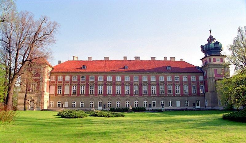 Lubomirski Castle in Łancut in Poland